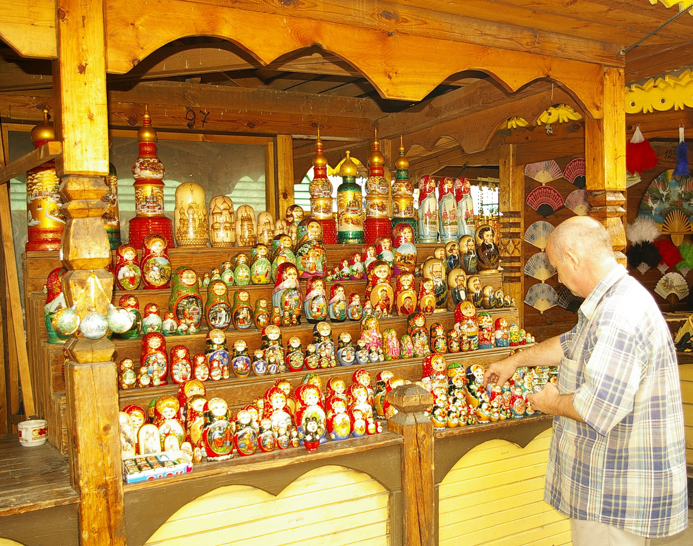 A vendor at Izmaylovo Market, in Moscow, sets out an array of Matryoshka dolls on his stall. The market houses a huge range of stalls, selling items ranging from all kinds of Matryoshka dolls, both traditional and not, wooden chess sets, Russian hats and Soviet memoriabilia, to shawls and clothing.